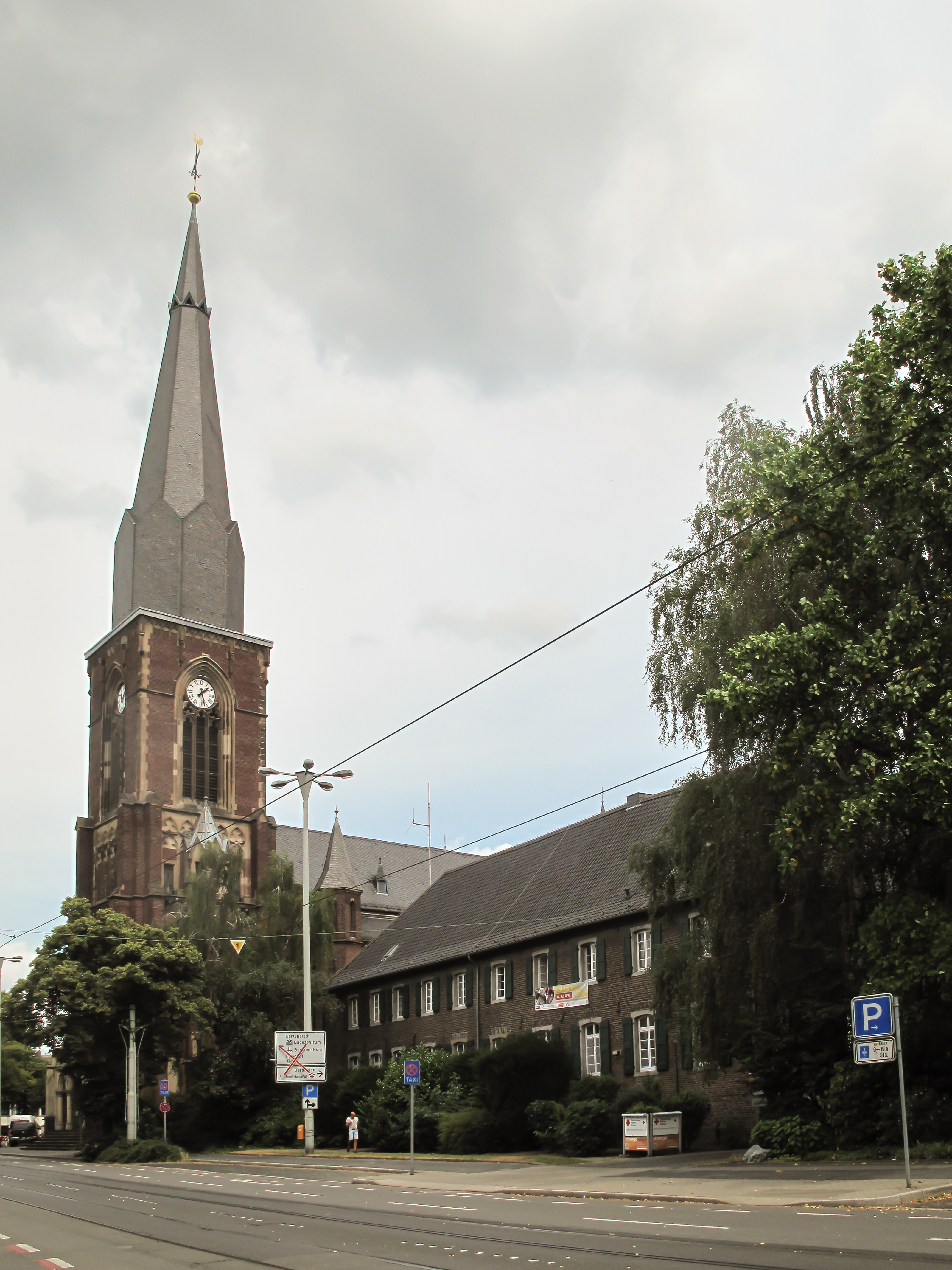 Bockum, church: katholische Pfarrkirche Sankt GertrudisThis is a photograph of an architectural monument., no. 228